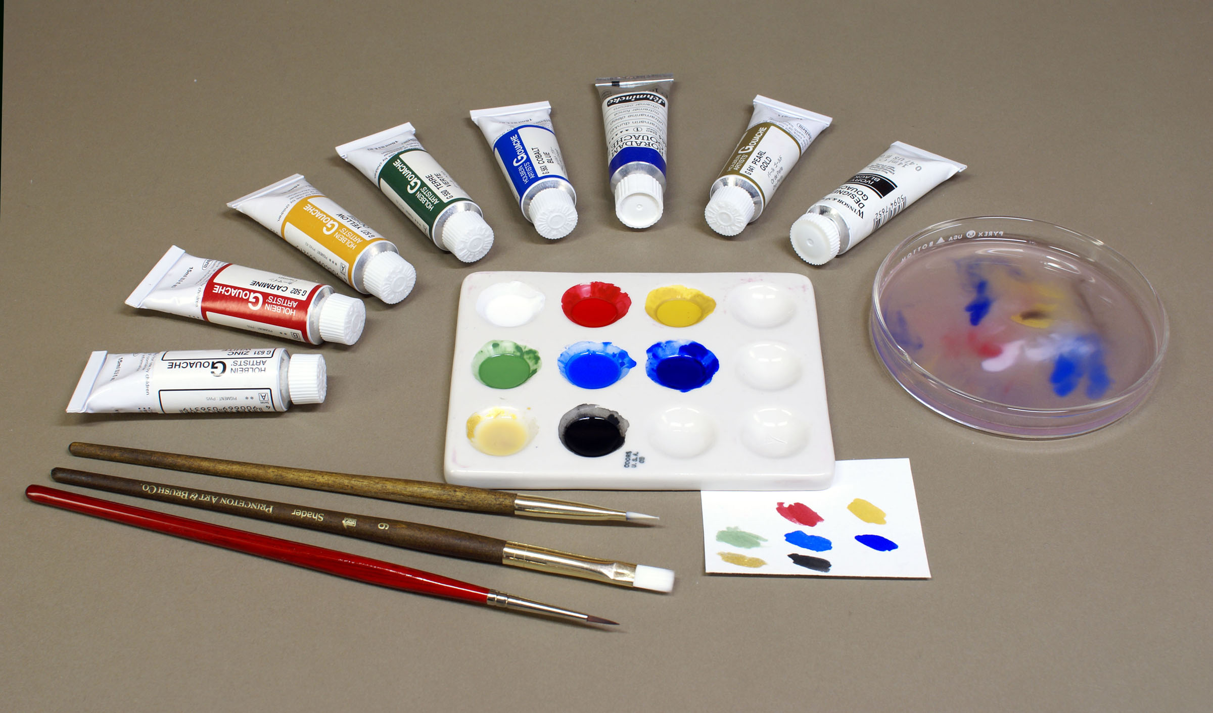 Gouache, a type of water-based paint composed of pigment particles thickly suspended in a binder of aqueous gum arabic, along with chalk to increase the bulk and opacity. Pictured are the paints which come in tubes similar to high-end watercolors, a mixing plate showing the colors already mixed with water (they come out of the tube as a thick gel), a color swatch, brushes, and a water dish for cleaning the brushes and controlling water content.